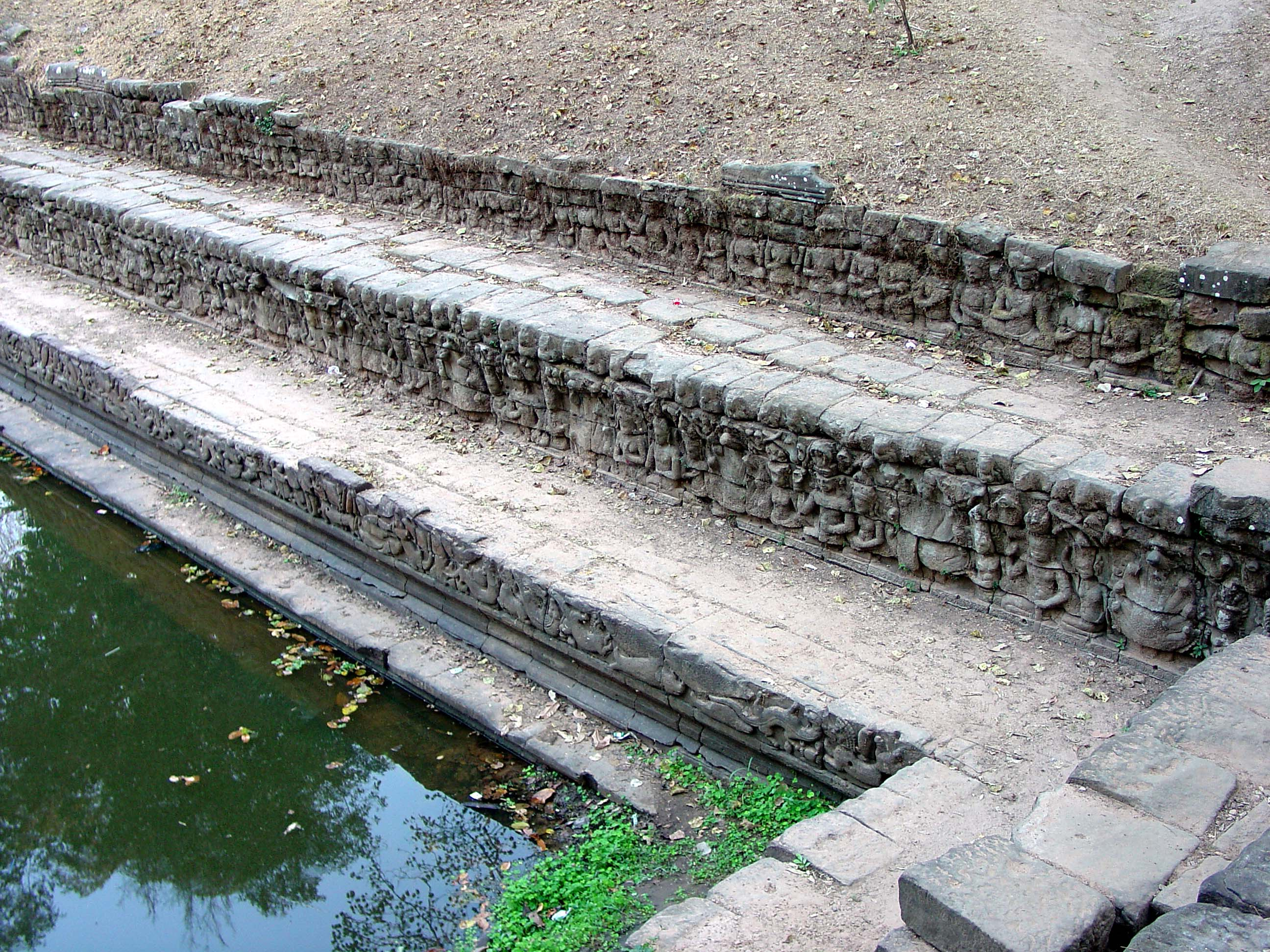 The large pond (145m x 45m, 476' x 148') north of Phimeanakas was built (probably) by Jayavarman VIII; the three above-ground courses of its retaining walls are covered with reliefs depicting the three worlds of sea, earth, and heavens.